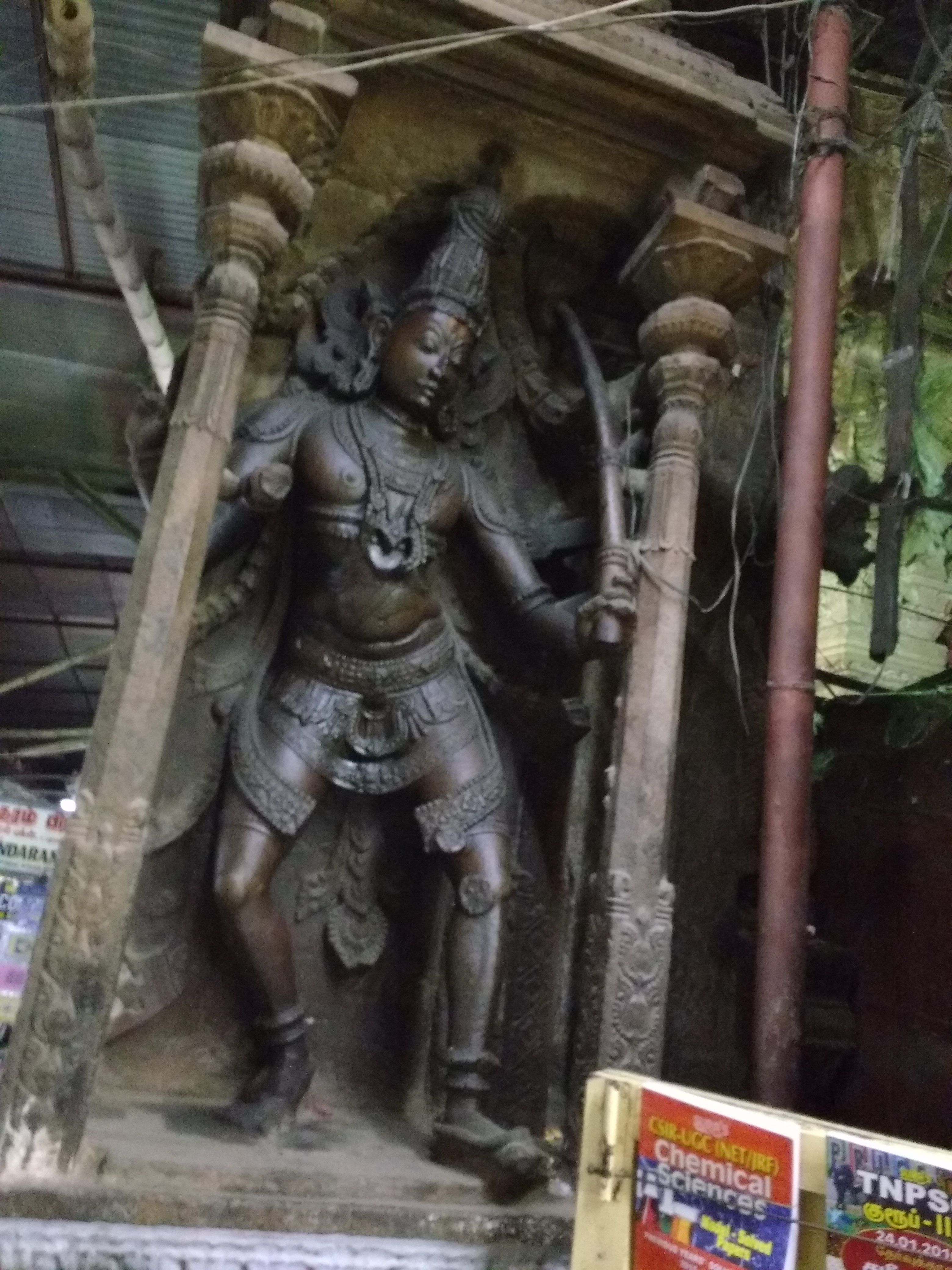 Lord Shiva in the name of Thirupurangatha who killed Asuras